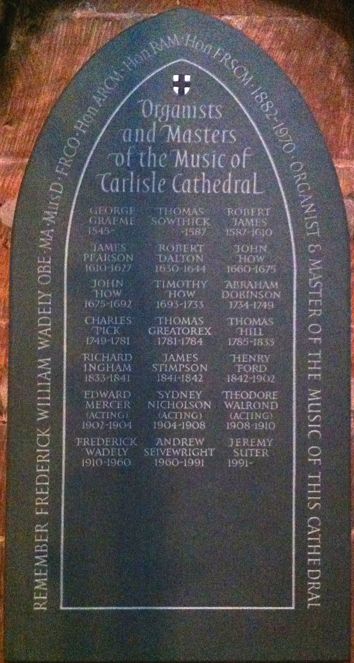 List of the organists and masters of the music of Carlisle Cathedral